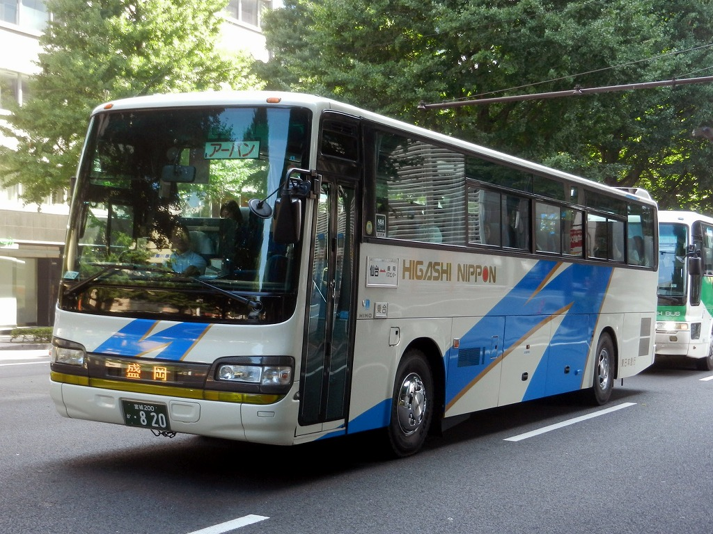 HigashiNippon Express Hino S'elega R (KL-RU4FSEA) highwaybus "Urban" (Sendai-Morioka)